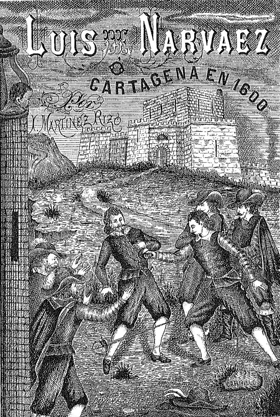 Frontispiece of the historical novel Luis de Narváez, ó Cartagena en 1600 (1880), by the Spanish writer Isidoro Martínez Rizo.